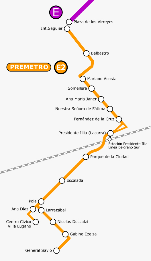 Simple Map of Premetro light rail route.